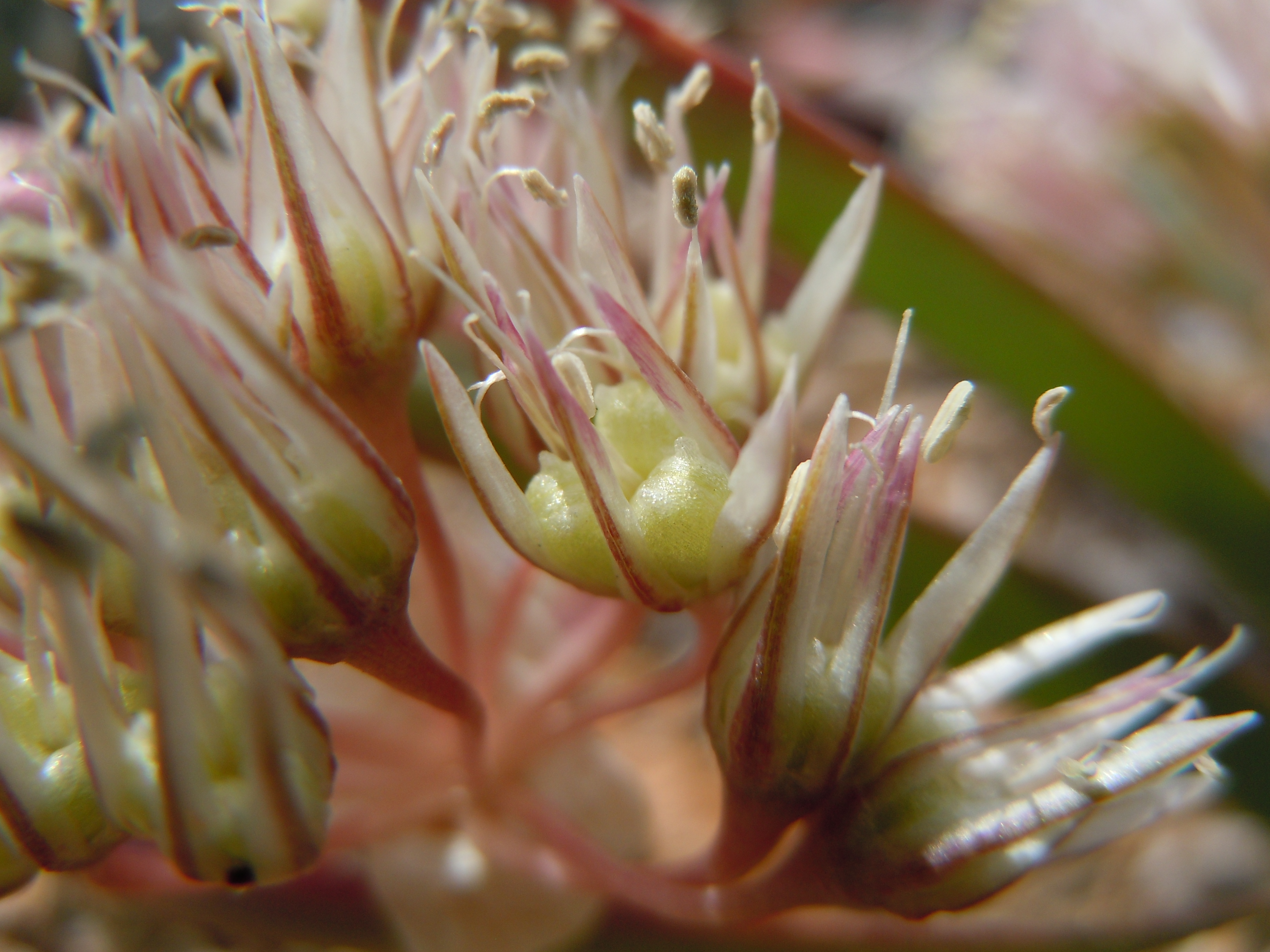 A distinctive onion largely because of its two flat falcate leaves that arise from buried leaf sheaths. These leaves begin withering from tip by anthesis and are typically deciduous (along with the flowering scape) at seed set. The bulb coats are distinctively prominently cellular-reticulate with the cells arranged in ±vertical rows. The tepals are also distinctive in being linear lanceolate and with entire margins. The is distinctly crested. This onion flowers during late spring and early summer and typically inhabits clayey or other sites with low vegetation cover.